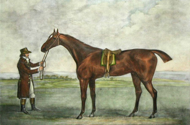 Champion, winner on 1800 Epsom Derby. Engraving after a painting by John Nott Sartorius (1759-1828). Artist has been dead for 184 years.